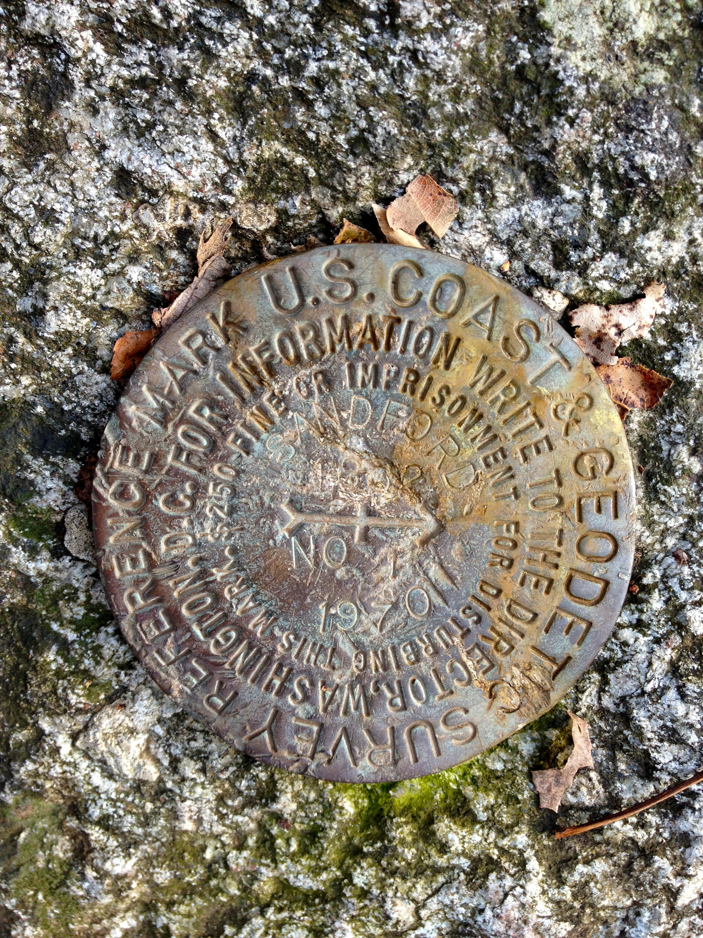 Mount Sanford summit, Bethany, CT. U.S. Coast and Geodetic Survey Reference Marker dated 1970. Inside Naugatuck State Forest (Mount Sanford Block) on the Quinnipiac Trail. Photo taken November 20, 2011.